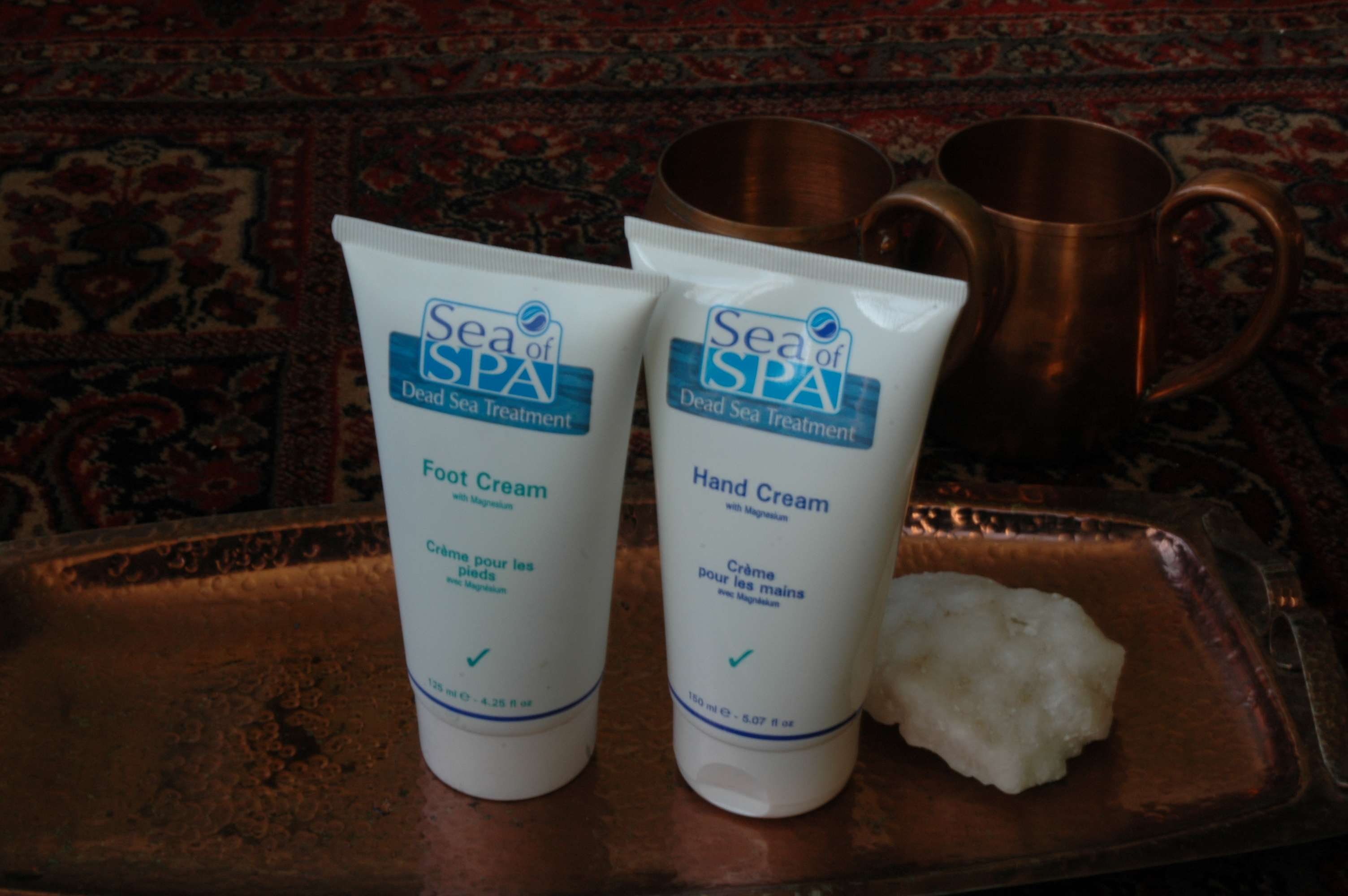 Tubes of Dead Sea hand cream and foot cream; a lump of Dead Sea salt